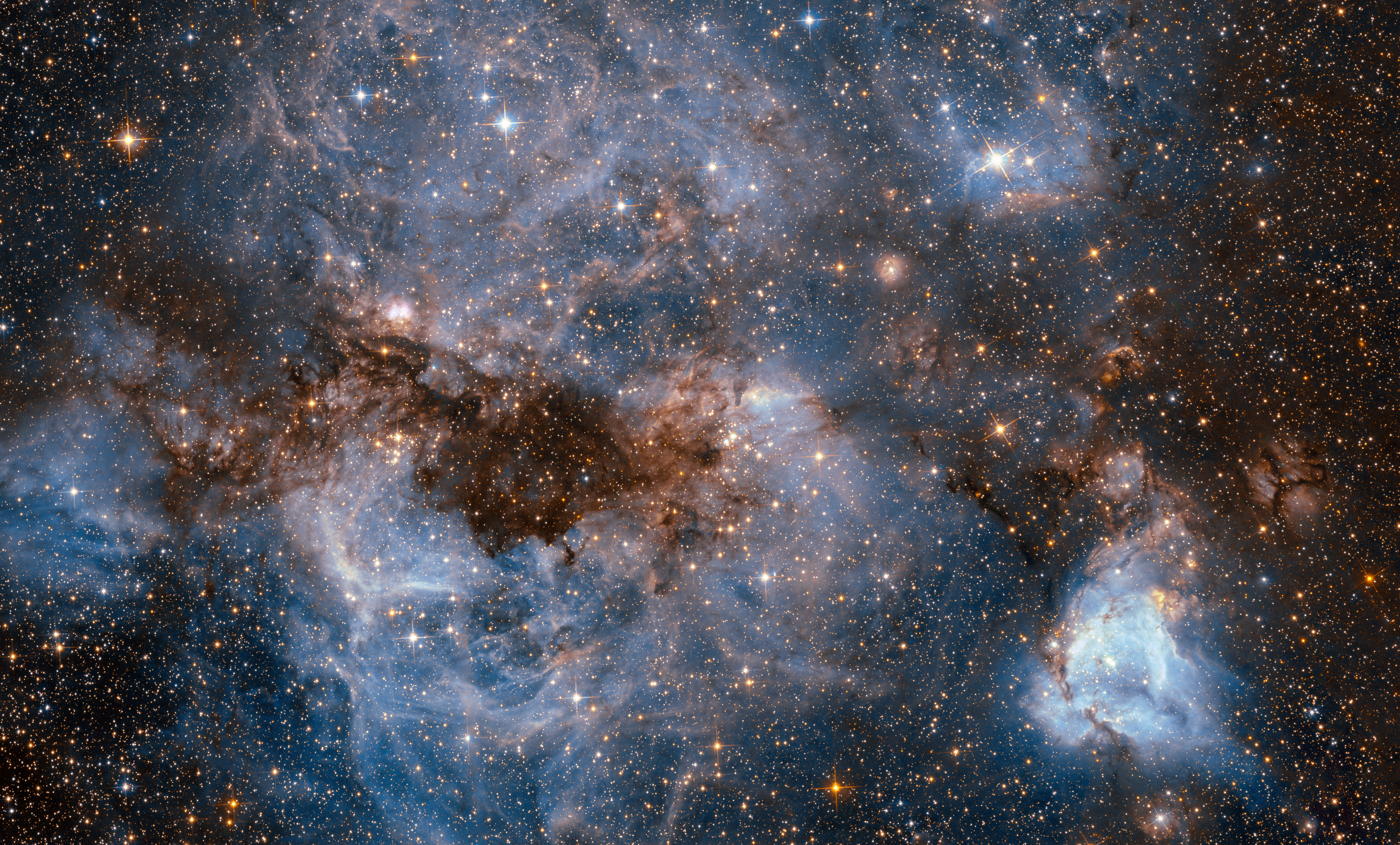 This shot from the NASA/ESA Hubble Space Telescope shows a maelstrom of glowing gas and dark dust within one of the Milky Way’s satellite galaxies, the Large Magellanic Cloud (LMC). This stormy scene shows a stellar nursery known as N159, an HII region over 150 light-years across. N159 contains many hot young stars. These stars are emitting intense ultraviolet light, which causes nearby hydrogen gas to glow, and torrential stellar winds, which are carving out ridges, arcs, and filaments from the surrounding material. At the heart of this cosmic cloud lies the Papillon Nebula, a butterfly-shaped region of nebulosity. This small, dense object is classified as a High-Excitation Blob, and is thought to be tightly linked to the early stages of massive star formation. N159 is located over 160,000 light-years away. It resides just south of the Tarantula Nebula (heic1402), another massive star-forming complex within the LMC. This image comes from Hubble’s Advanced Camera for Surveys. The region was previously imaged by Hubble’s Wide Field Planetary Camera 2, which also resolved the Papillon Nebula for the first time. Credit: ESA/Hubble & NASA